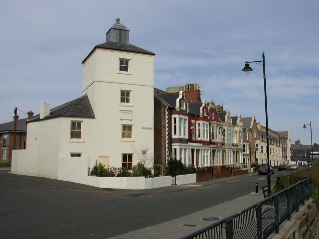 Old High Light. Old High Light constructed in 1727. Following changes in the river it was replaced in 1807 by the New High Light.